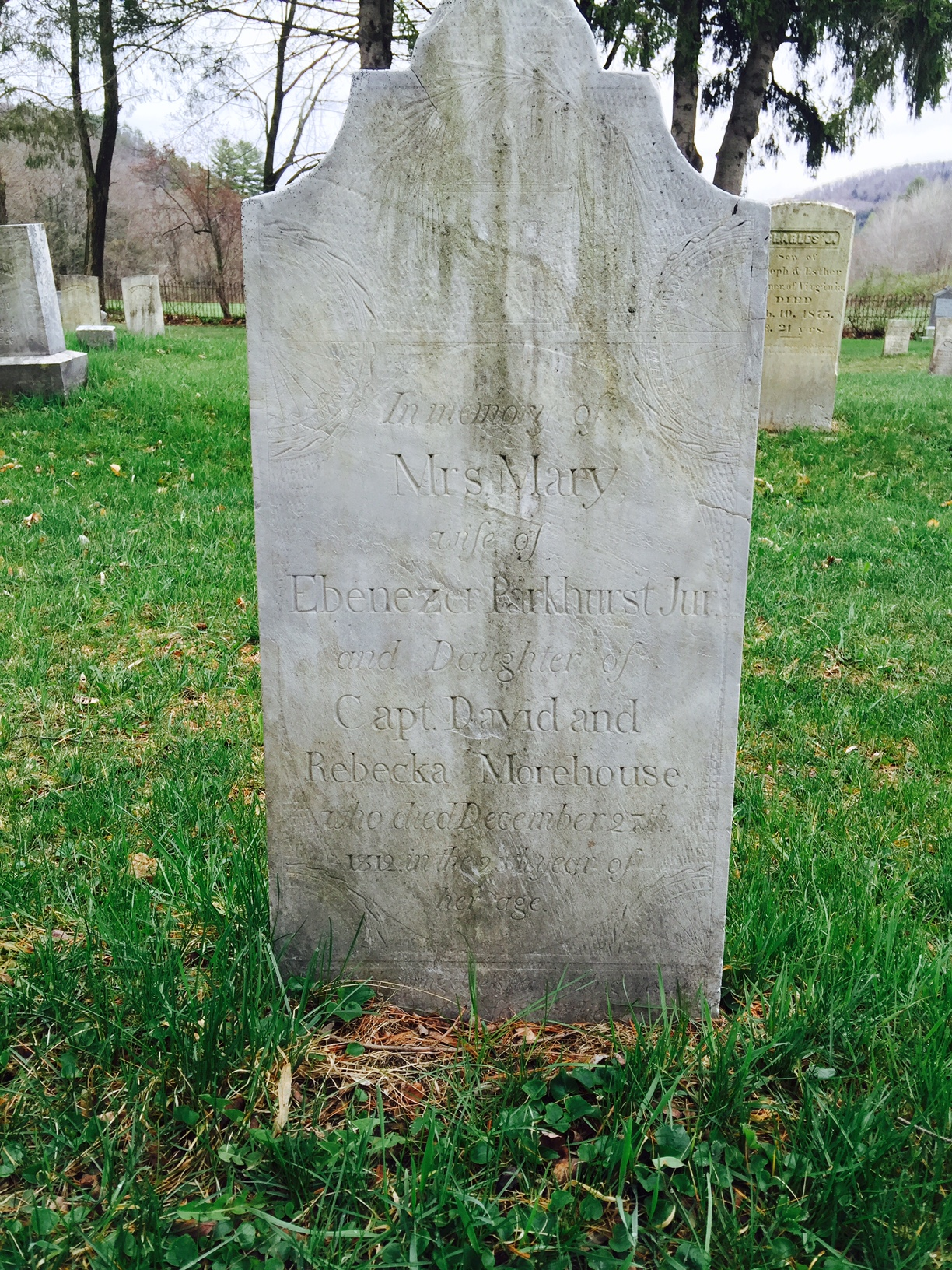 Tombstone of Mary Parkhurst, mother of Charley Parhurst, wife of Ebenezer Parkhurst Jr.